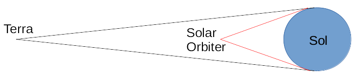 Outline showing the perspectives of the Sun from the Earth and the Solar Orbiter